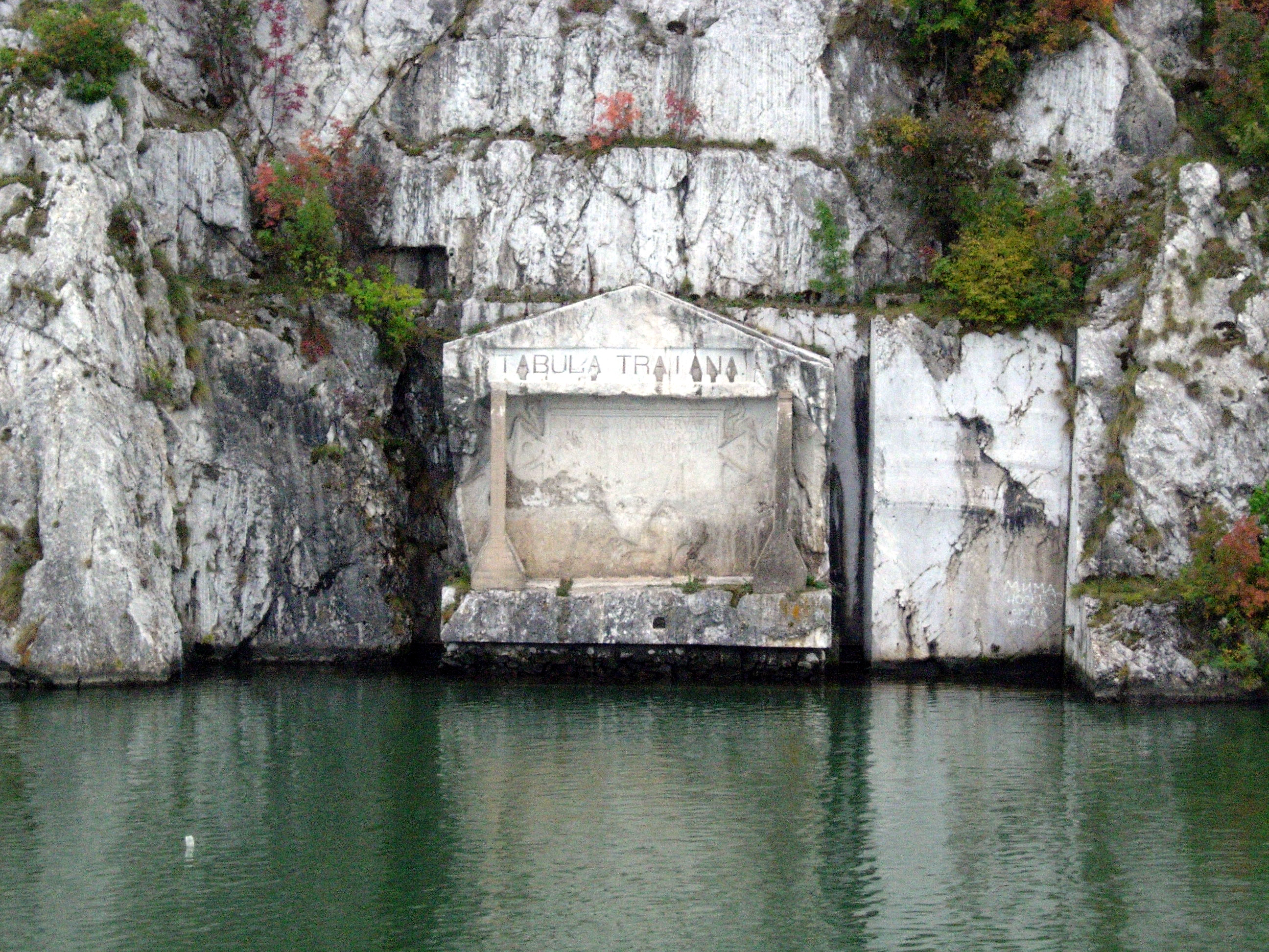 Photo of the Tabula Traiana plaque that is found in the Iron Gate gorge of the Danube on the Serbian coast. Was erected to commemorate the defeat of the Dacian kings by the Romans